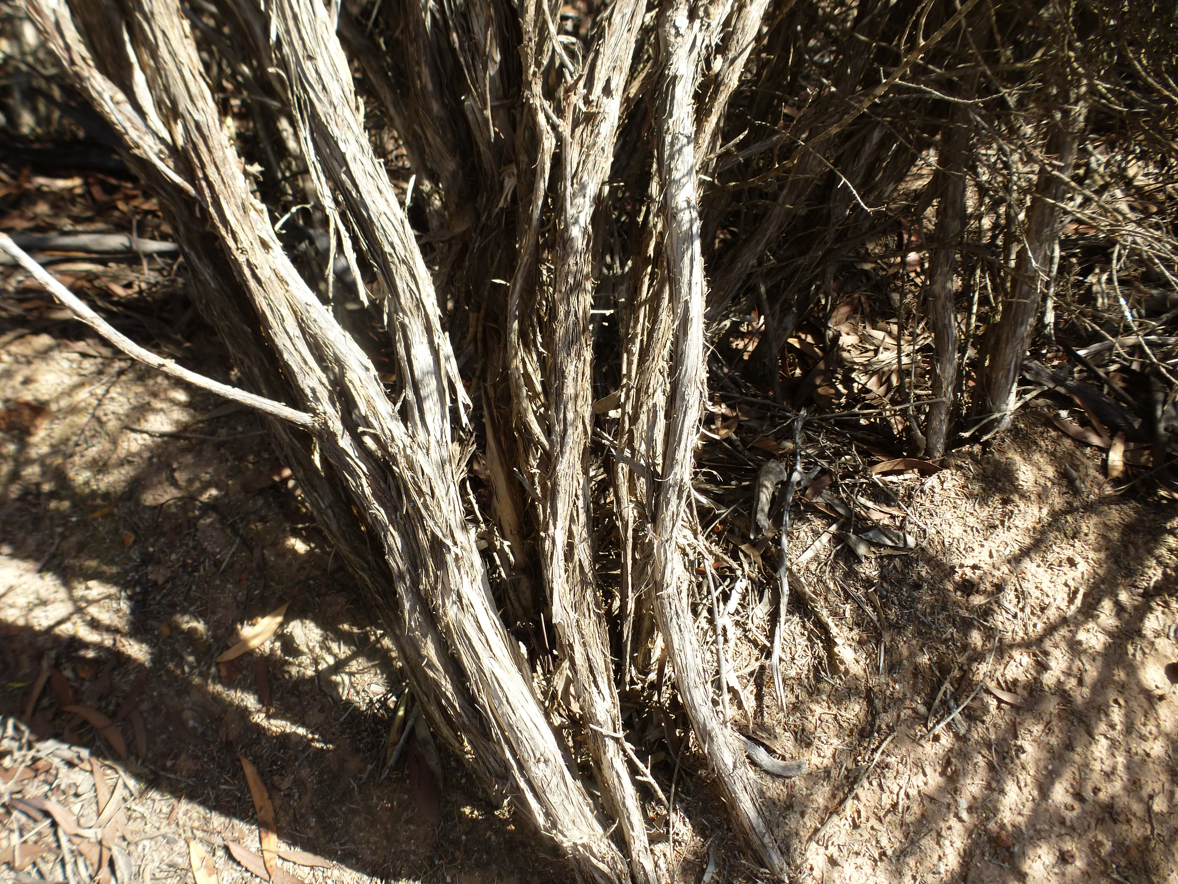 Melaleuca condylosa at the type location, on Bendering Reserve (Whyte) Road